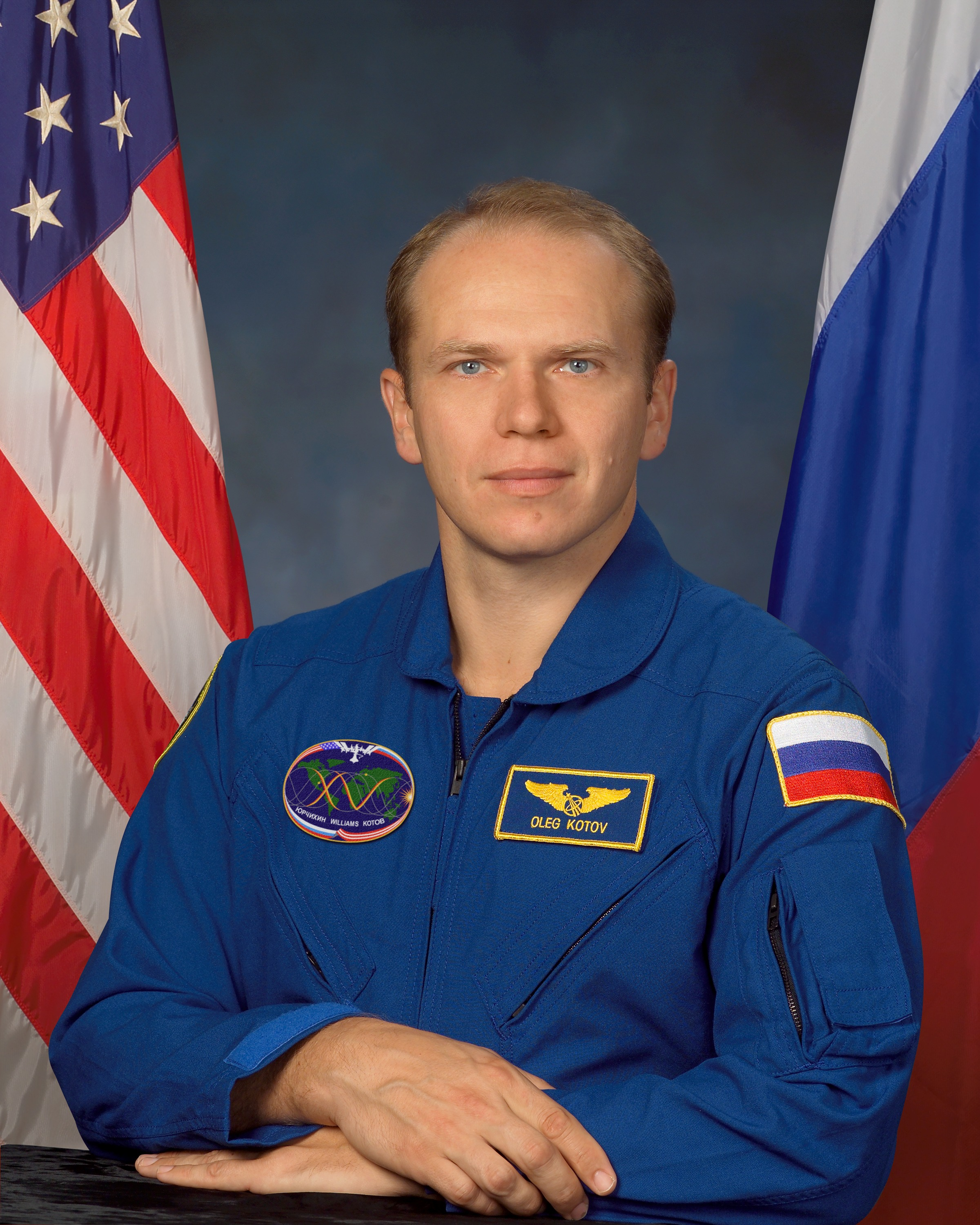 JSC2006-E-50531 (21 Sept. 2006) --- Cosmonaut Oleg V. Kotov, flight engineer representing Russia's Federal Space Agency